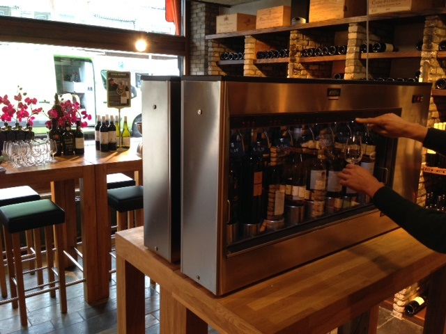 Winestore inside